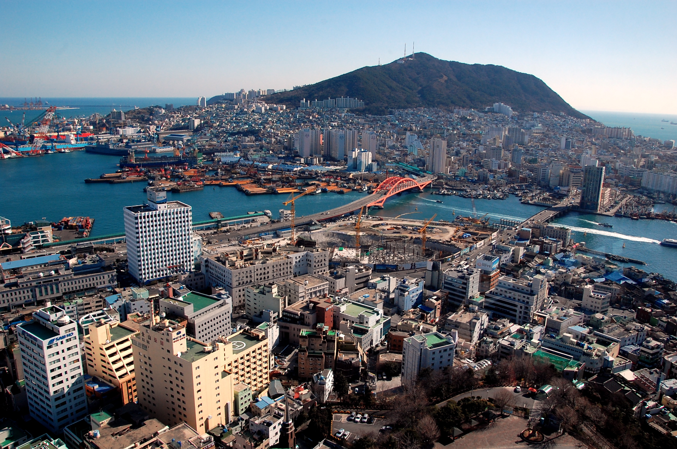 Busan scenery from Busan Tower